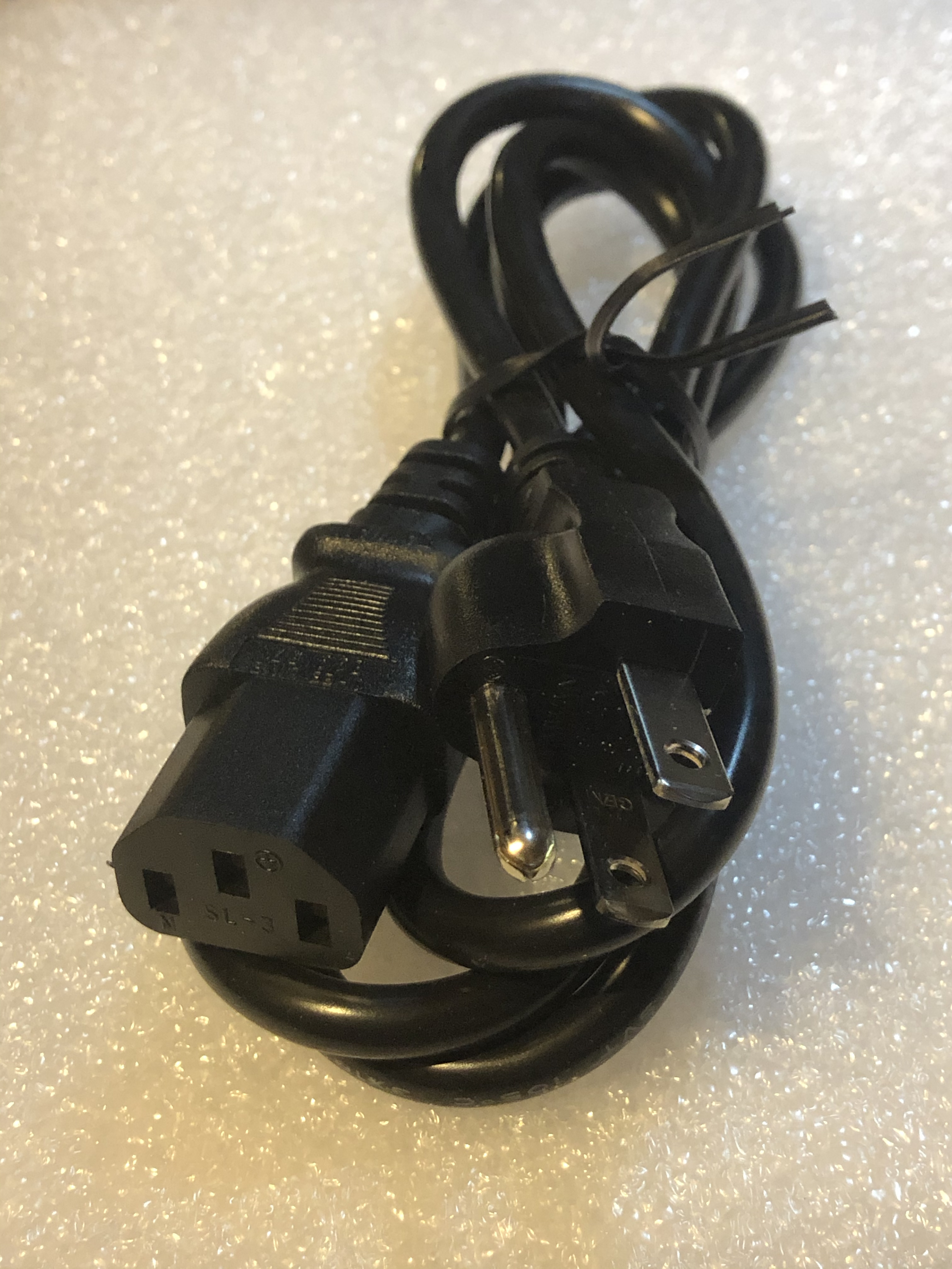 North American power cord with IEC 60320 C13 connector on one end and NEMA 5-15 plug on the other end. Cord set is new, held together with a twist tie, as supplied with an appliance.